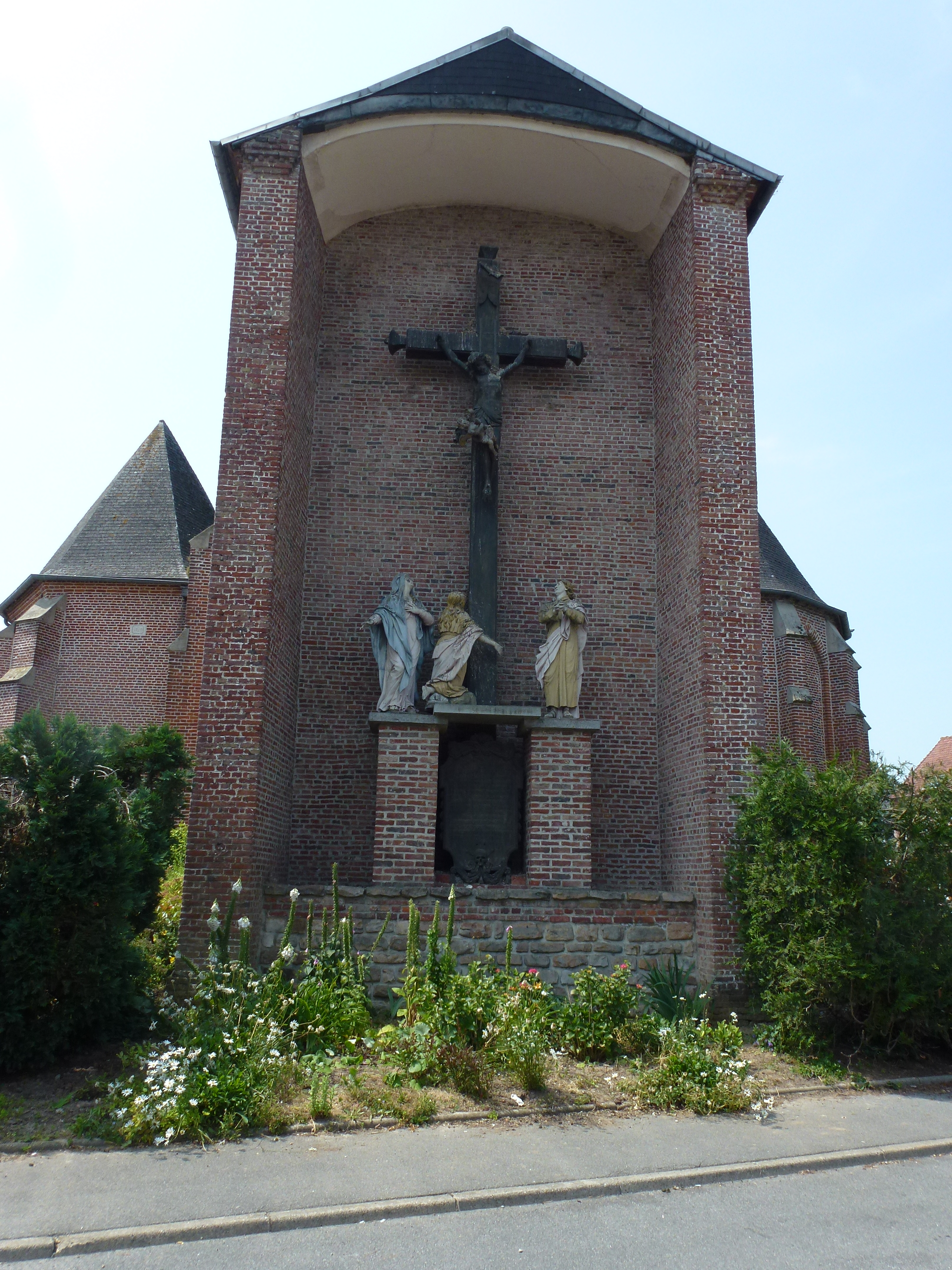 Steenbecque (Nord, Fr) église Saint-Pierre, le calvaire au chevet